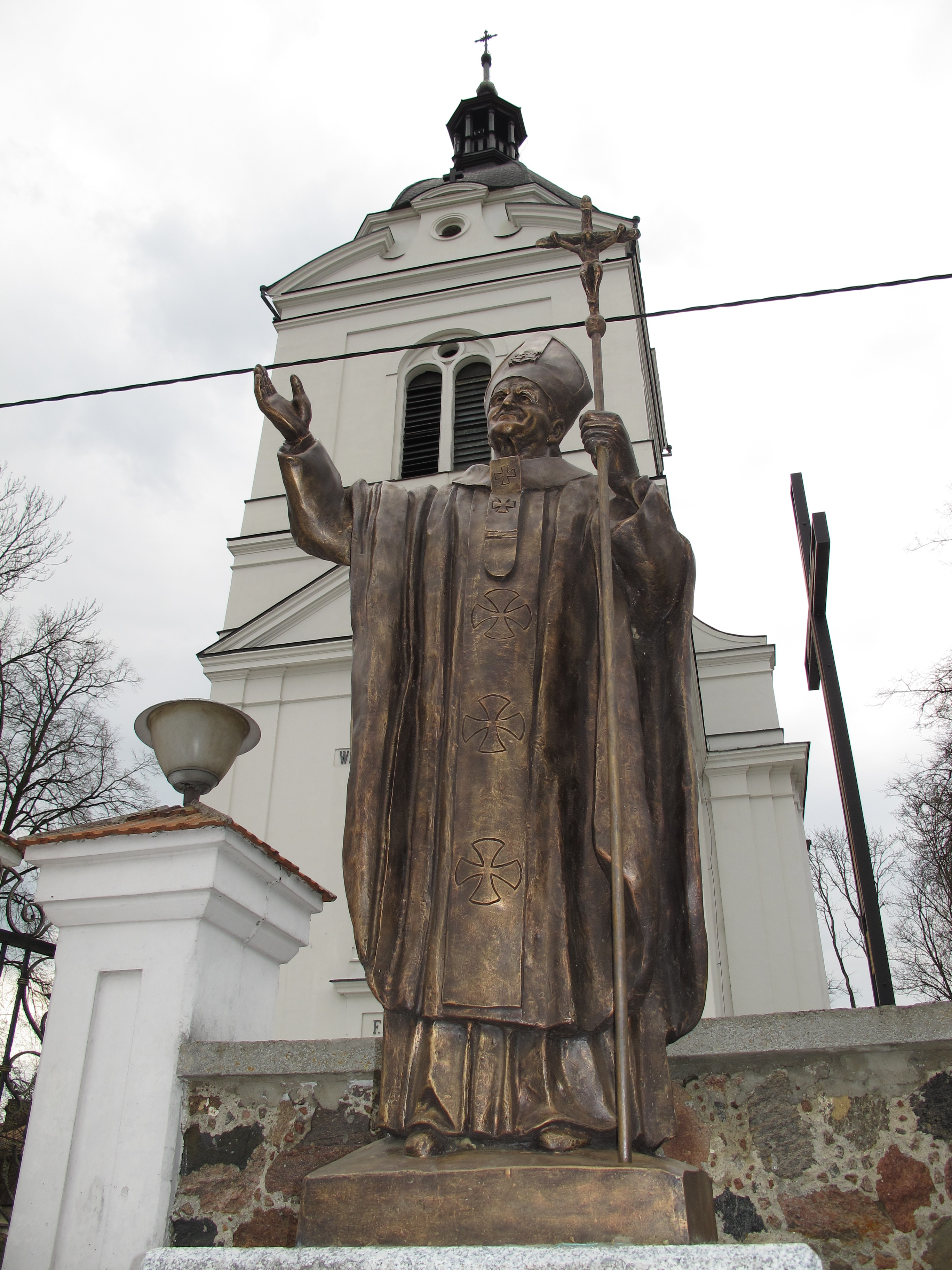 Juchnowiec Kościelny village - Statue of JPII by church of Holy Trinity, gmina Juchnowiec Kościelny, podlaskie, Poland